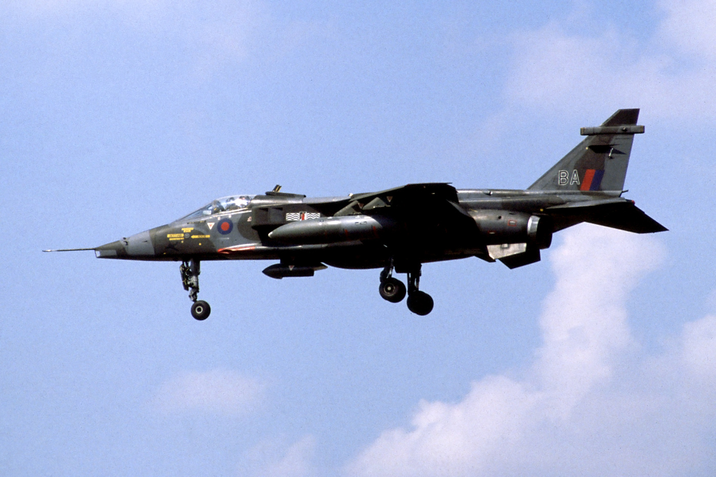 Brüggen, 11 August 1982. RAF Brüggen (West Germany) breathed the Cold War. On a normal day all four Jaguar squadrons were active, flying all day, multiple missions. A spotter could write down 30 different serial numbers. Add miles of barbed wire, RAF police on patrol and the Bloodhound missiles and you have a real war base. Less than two months after I took the photo, RAF Jaguar GR1 XX768 of 17 Squadron crashed. It went down with an engine fire on approach on 29 September 1982. The pilot ejected safely.